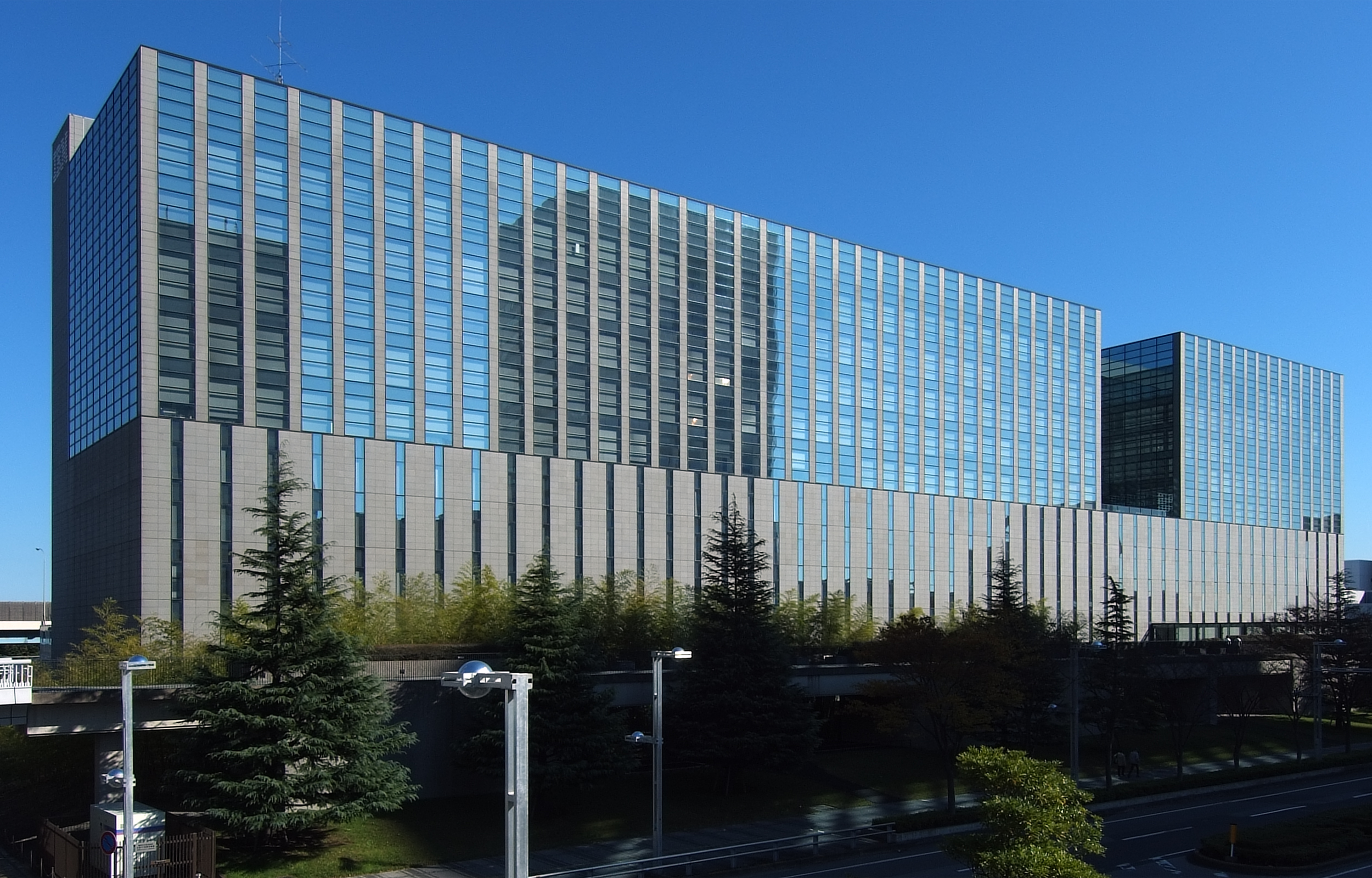 IBM Japan Makuhari Technical Center, at Makuhari Chiba Japan, designed by Yoshio Taniguchi in 1996.